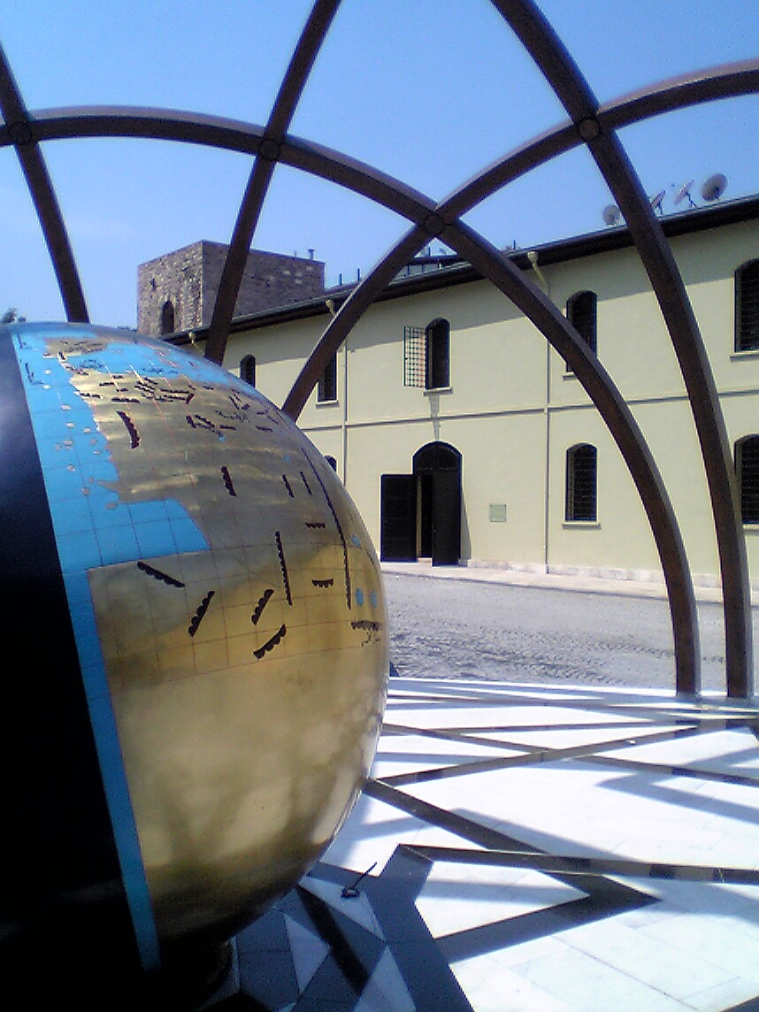 Sphere representing the ancient world outside the front door of the Istanbul Museum of the History of Science and Technology in Islam (istanbul islam Bilim ve Teknoloji Tarihi Müzesi). Located in Gülhane Park, Istanbul (opposite the Topkapı Palace).